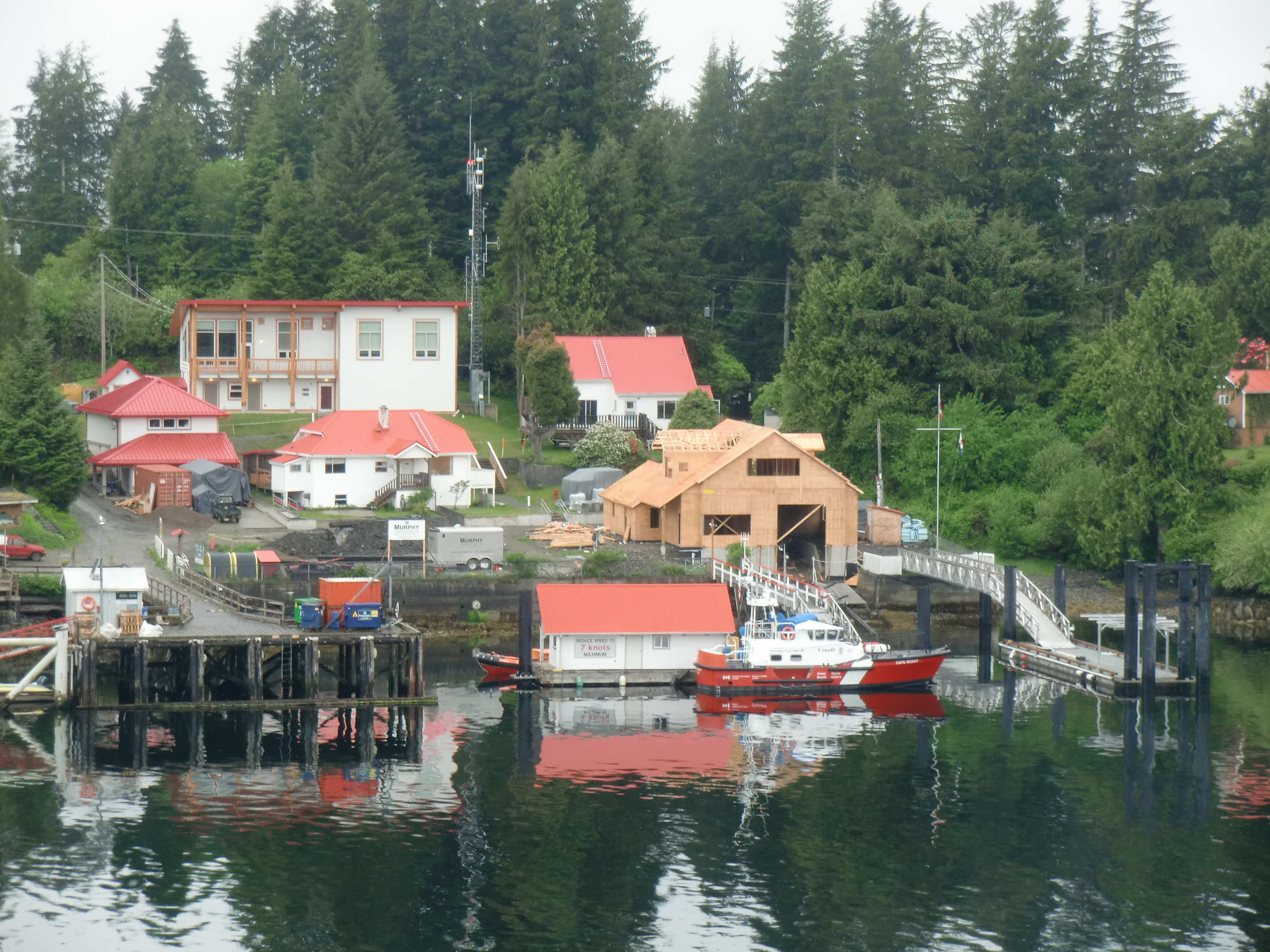 A picture showing Government Dock West, Coast Guard Station Bamfield (with a new building under construction) and the CCGS Cape McKay from a vantage point at Bamfield Marine Sciences Centre on East Bamfield.